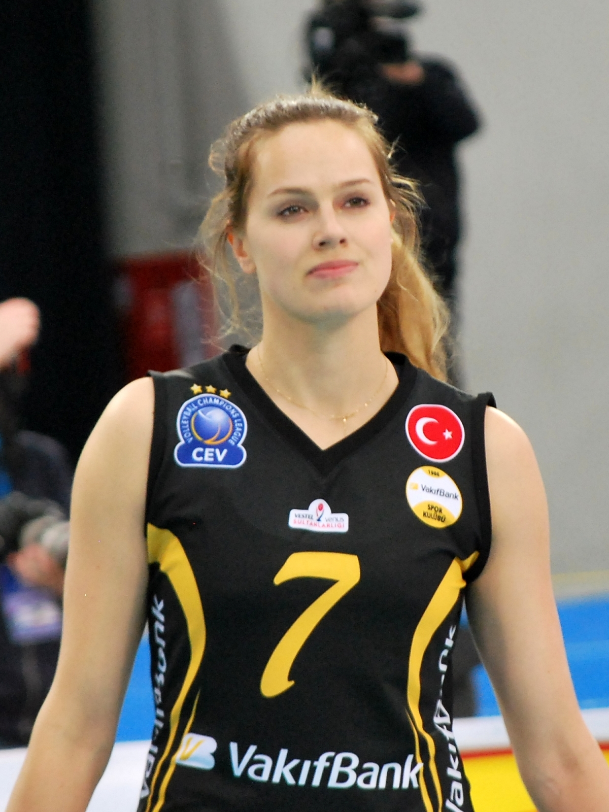 Kelsey Robinson, volleyball player from the USA